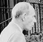 Edward Wood, 3rd Viscount of Halifax, British Ambassador to the United States